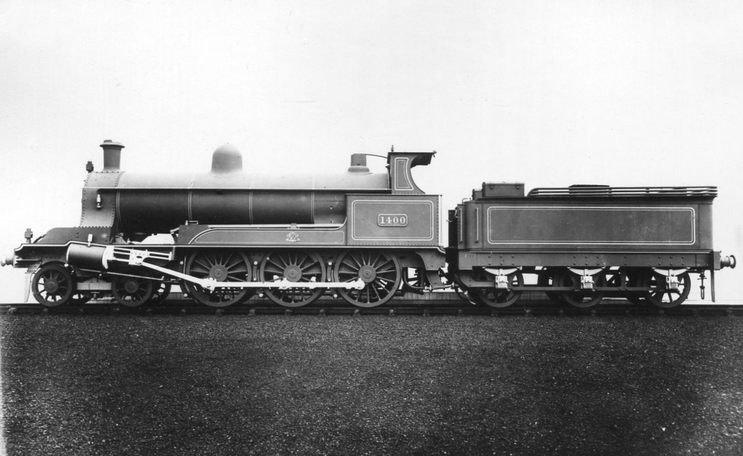 Photograph of LNWR engine No.1400